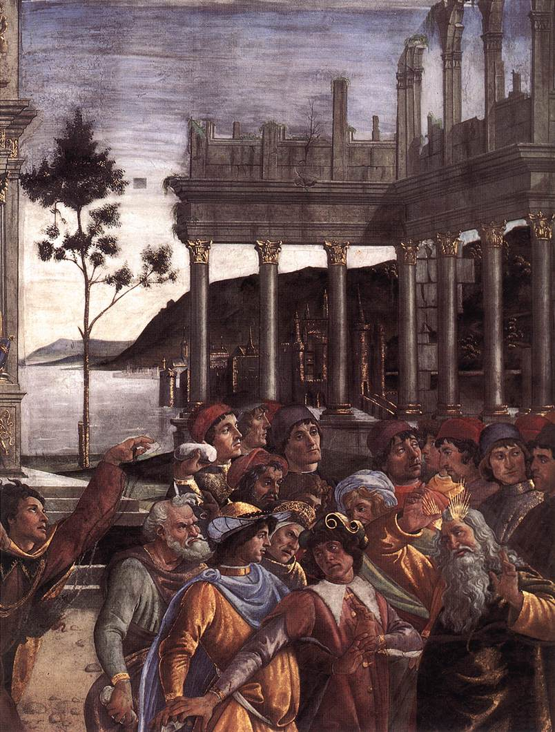 The Punishment of Korah (detail 4)